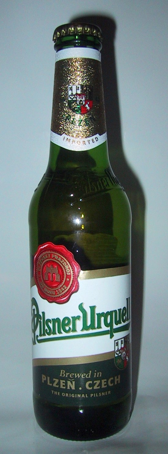 Pilsner Urquell beer (Czech Republic)